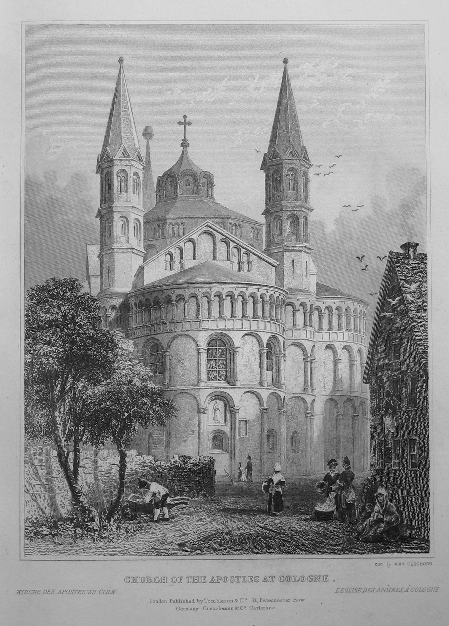 Steel engraving from "Views of the Rhine" by William Tombleson (around 1840): Church of the Apostles at Cologne